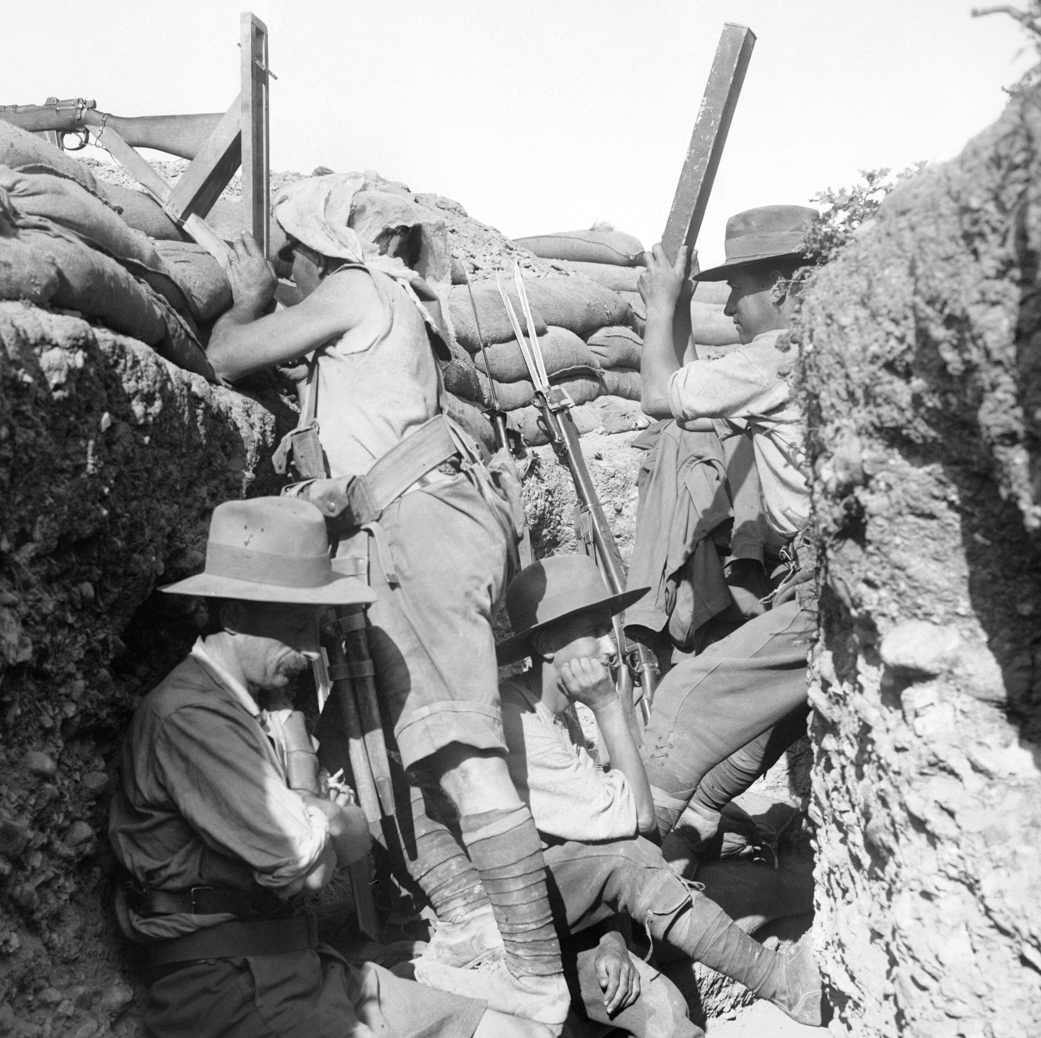 Australian sniper using a periscope rifle at Gallipoli, 1915. He is aided by a spotter with a periscope. The men are believed to belong to the Australian 2nd Light Horse Regiment and the location is probably Quinn's Post.